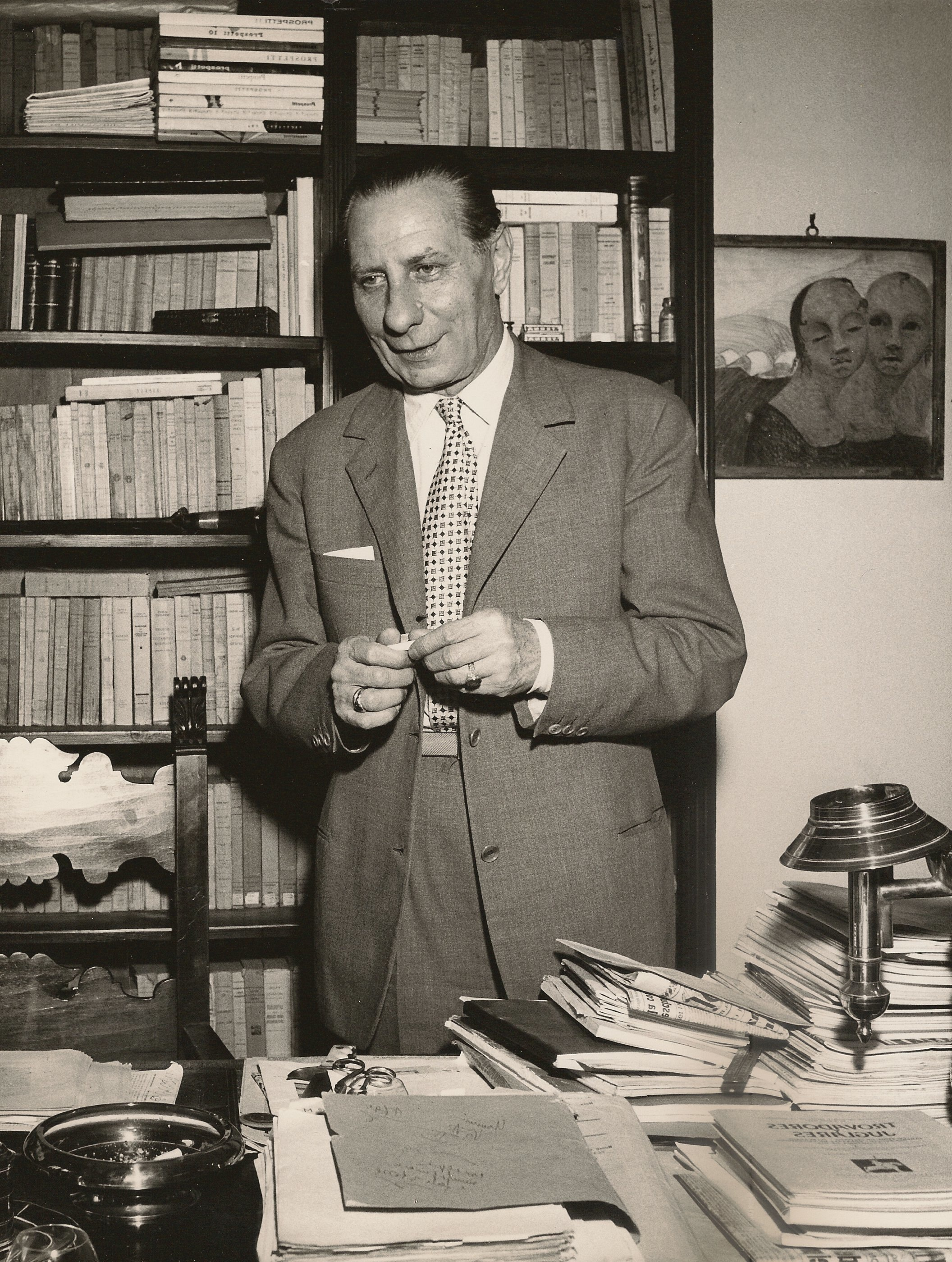 Picture of Giuseppe Ravegnani